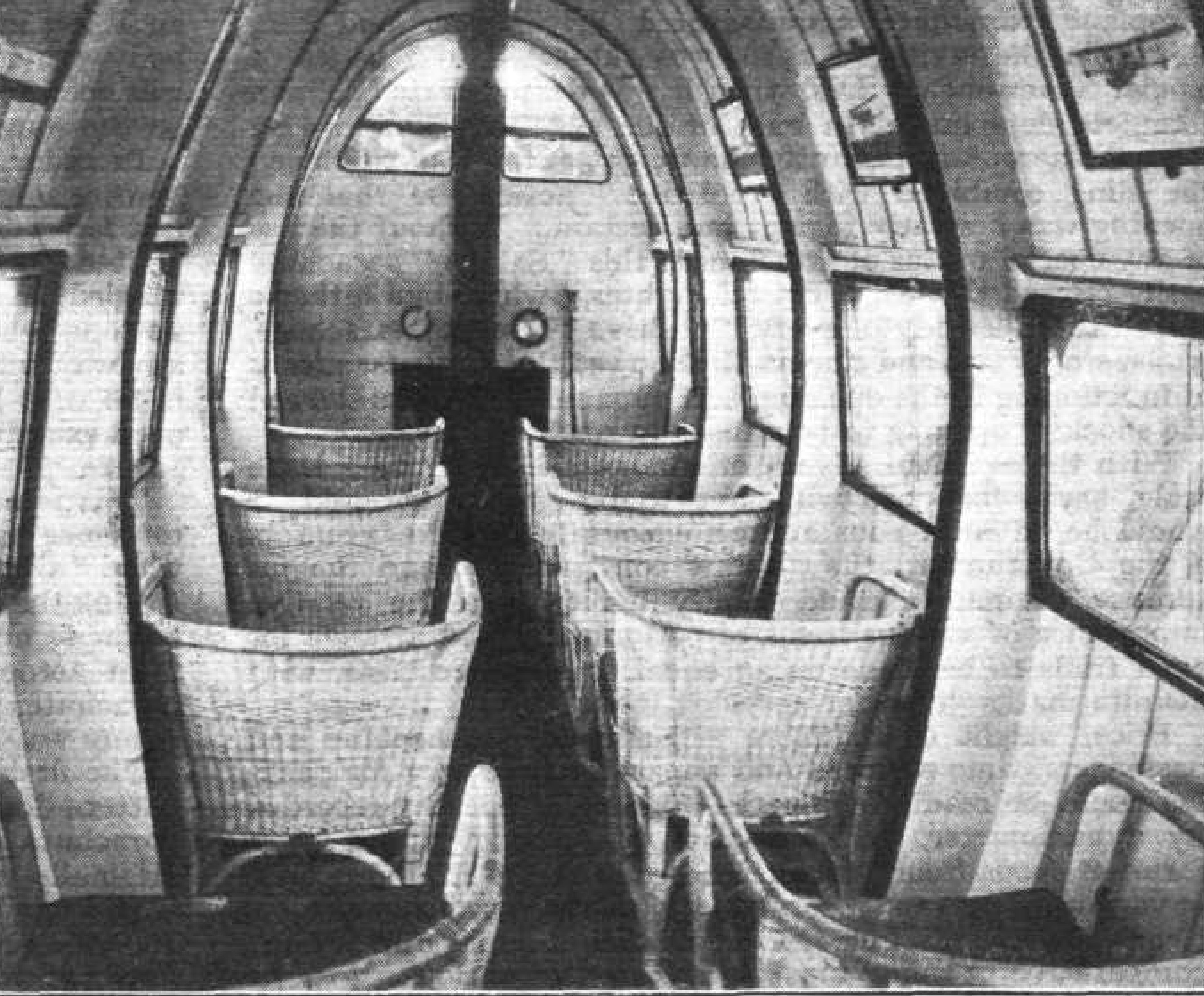 The cabin of the Vickers Vimy Commercial prototype, flown on the London-Cairo-Cape Town race, that left Brooklands on 24 January 1920 but crashed at Tabora, Tanganyika on 27 February.